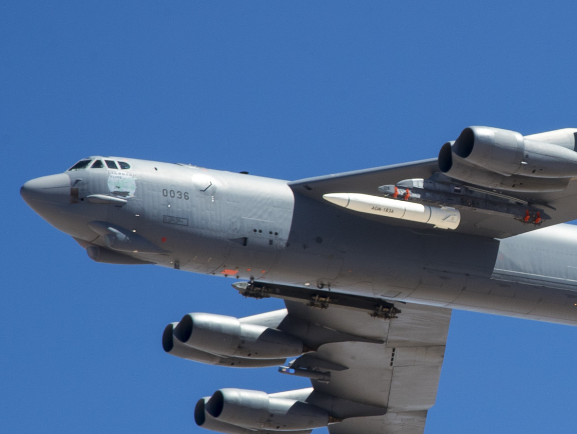 EDWARDS AIR FORCE BASE, Calif. (June 12, 2019) B-52 out of EDW carries ARRW IMV asset for its first captive carry flight over Edwards Air Force Base. (U.S. Air Force photo by Christopher Okula)